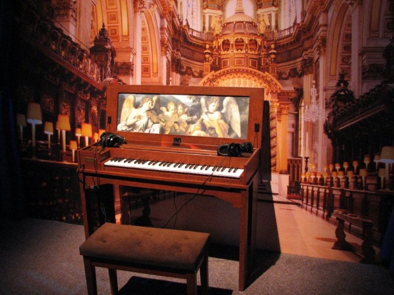 Roland Classic C-30 Digital Harpsichord